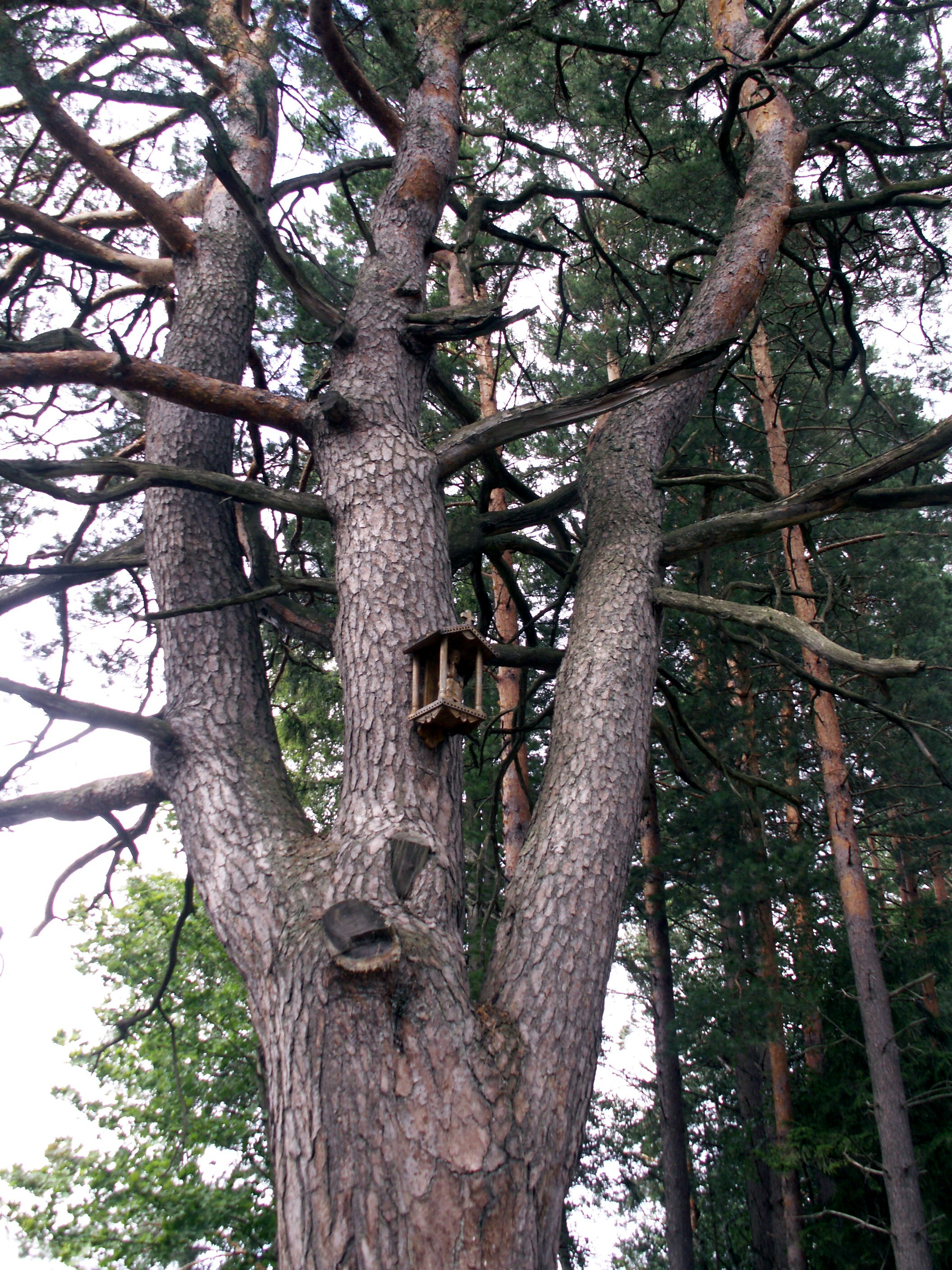 Gailiškė, Kelmė district, Kurtuvėnai regional park, Lithuania